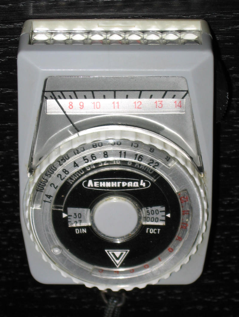 Galvanometric light-meter for amateur photographers, old style (1968), USSR made, model "Leningrad-4"